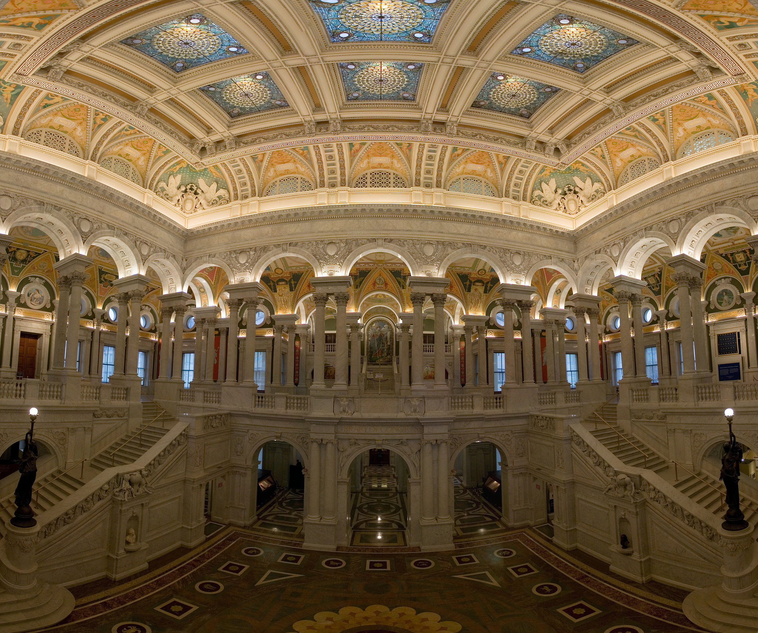 A 2x3 segment panoramic view of the Great Hall of the Library of Congress in Washington D.C., United States. Taken with a Canon 5D and 17-40mm f/4L lens.